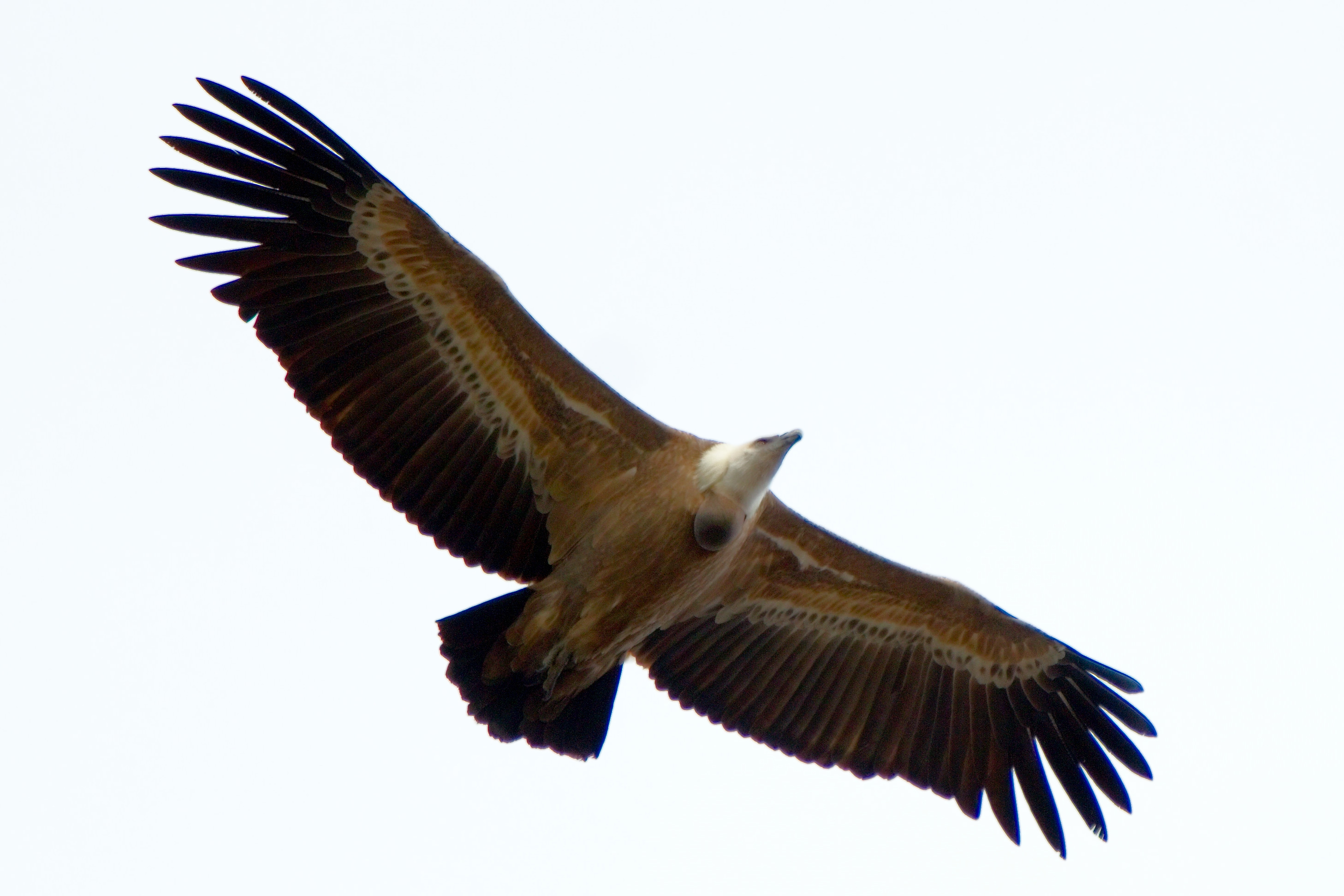 Gyps fulvus in flight